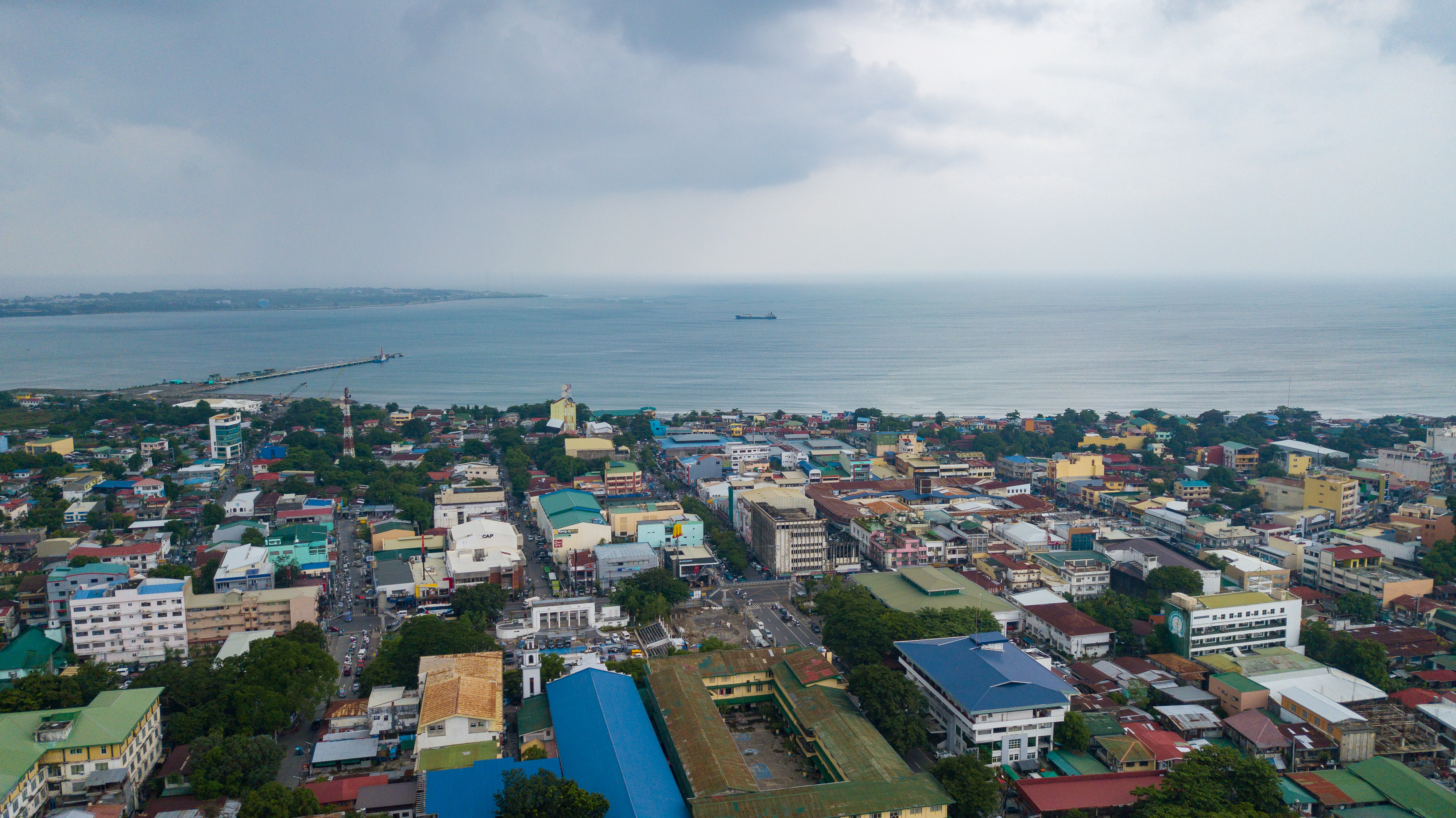 City of San fernando La Union Skyline.